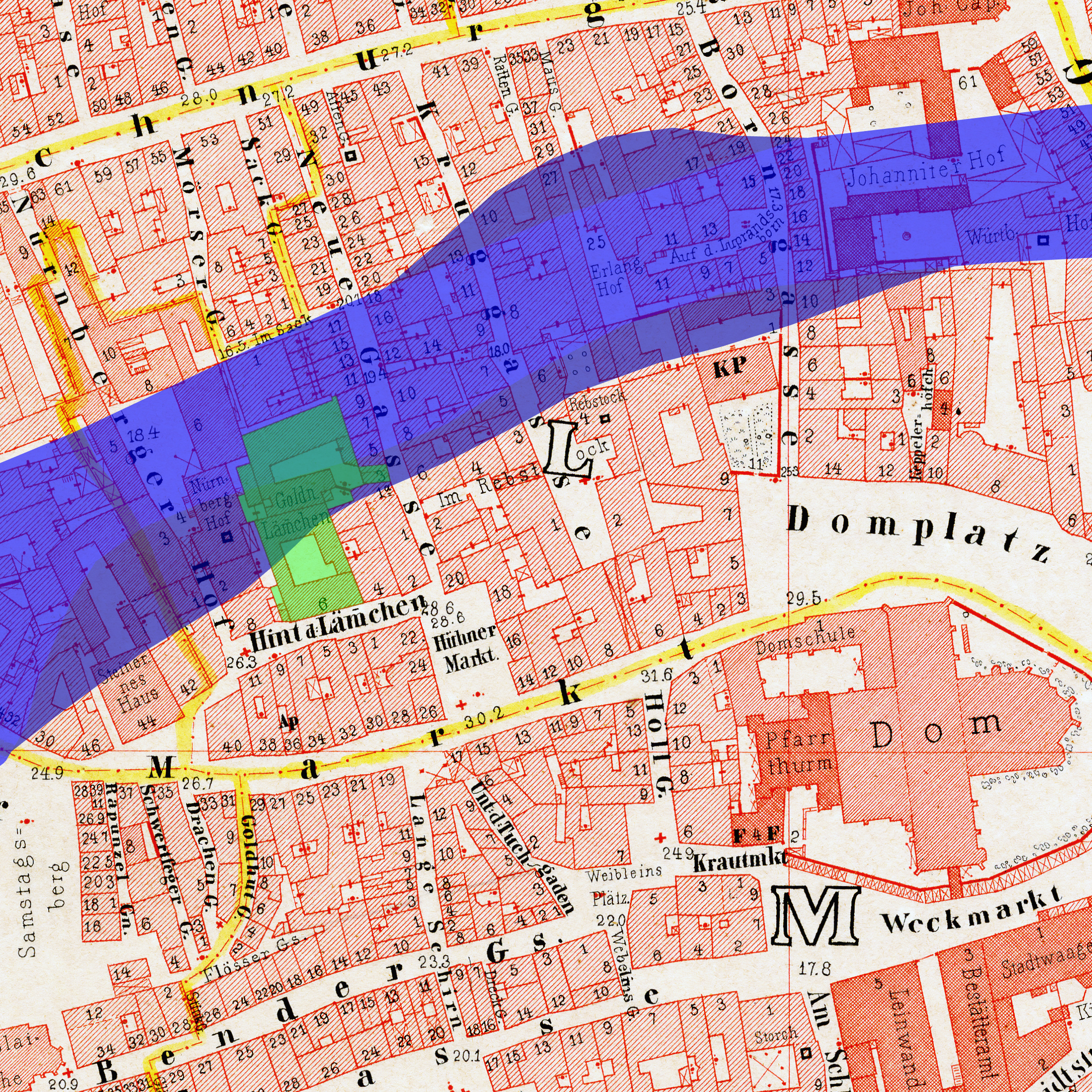 Frankfurt on the Main: crop of map sheet 5, the erstwhile open (blue) respectively beneath clay (dark blue) course of the Braubach's moor as well as the Goldenes Lämmchen (Golden Lambkin) are highlighted in colours